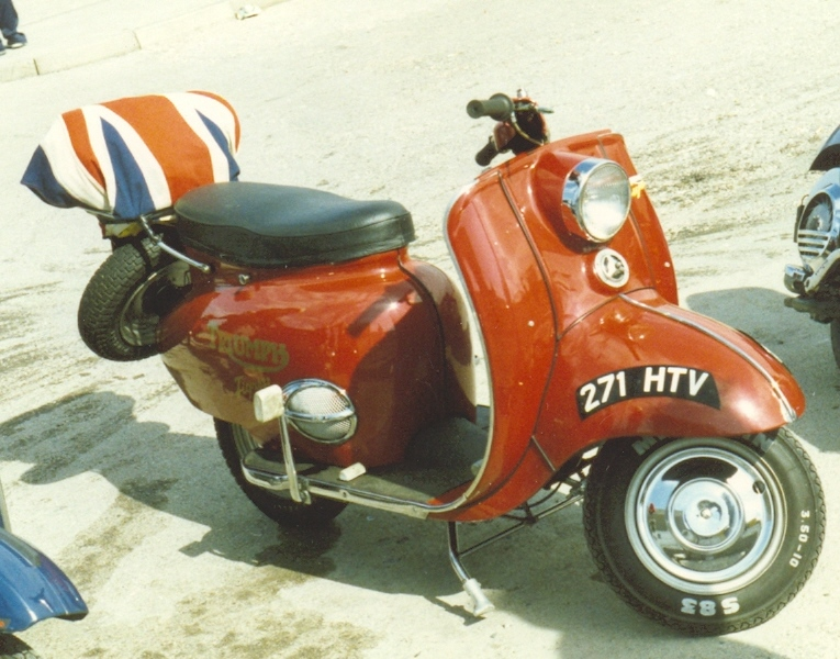 Triumph Tigress scooter pictured at the Morecambe Scooter Rally 1987